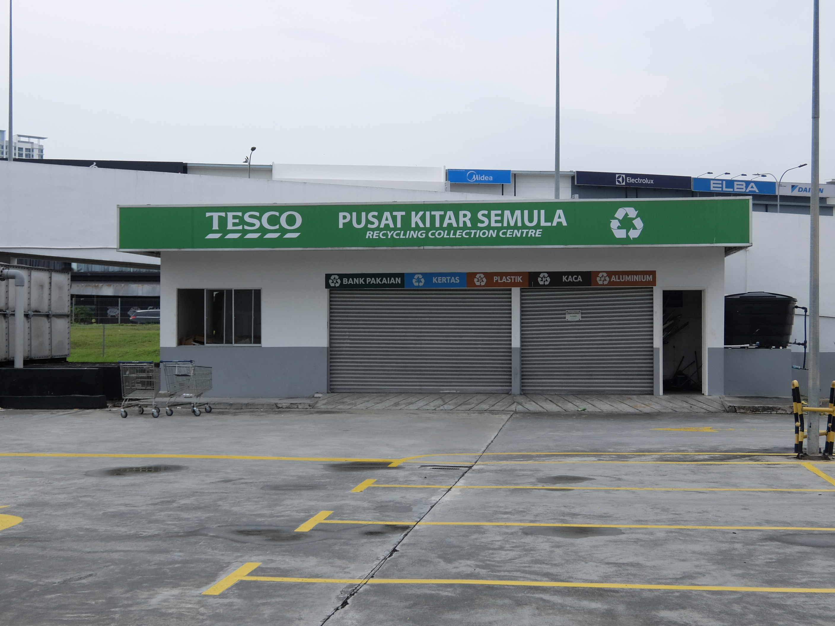 Tesco Bukit Indah, Bukit Indah, Iskandar Puteri, Johor Bahru, Johor, Malaysia